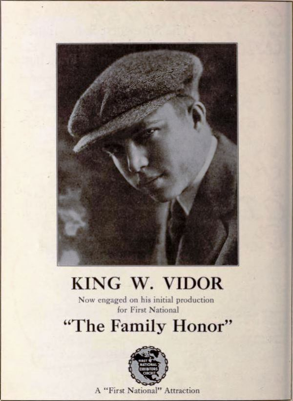 Advertisement for the American film The Family Honor (1920) with film director King Vidor, on page 20 of the February 21, 1920 Exhibitors Herald.